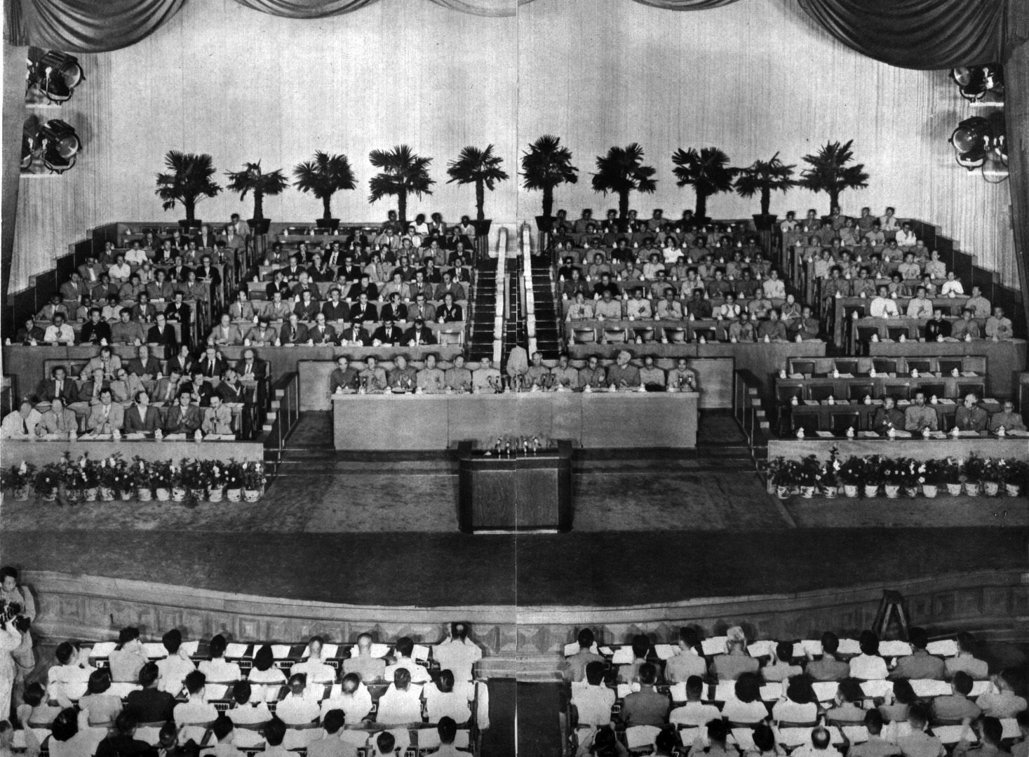 Chairman Mao delivering his opening speech for 6th National Congress of the Communist Party of China.